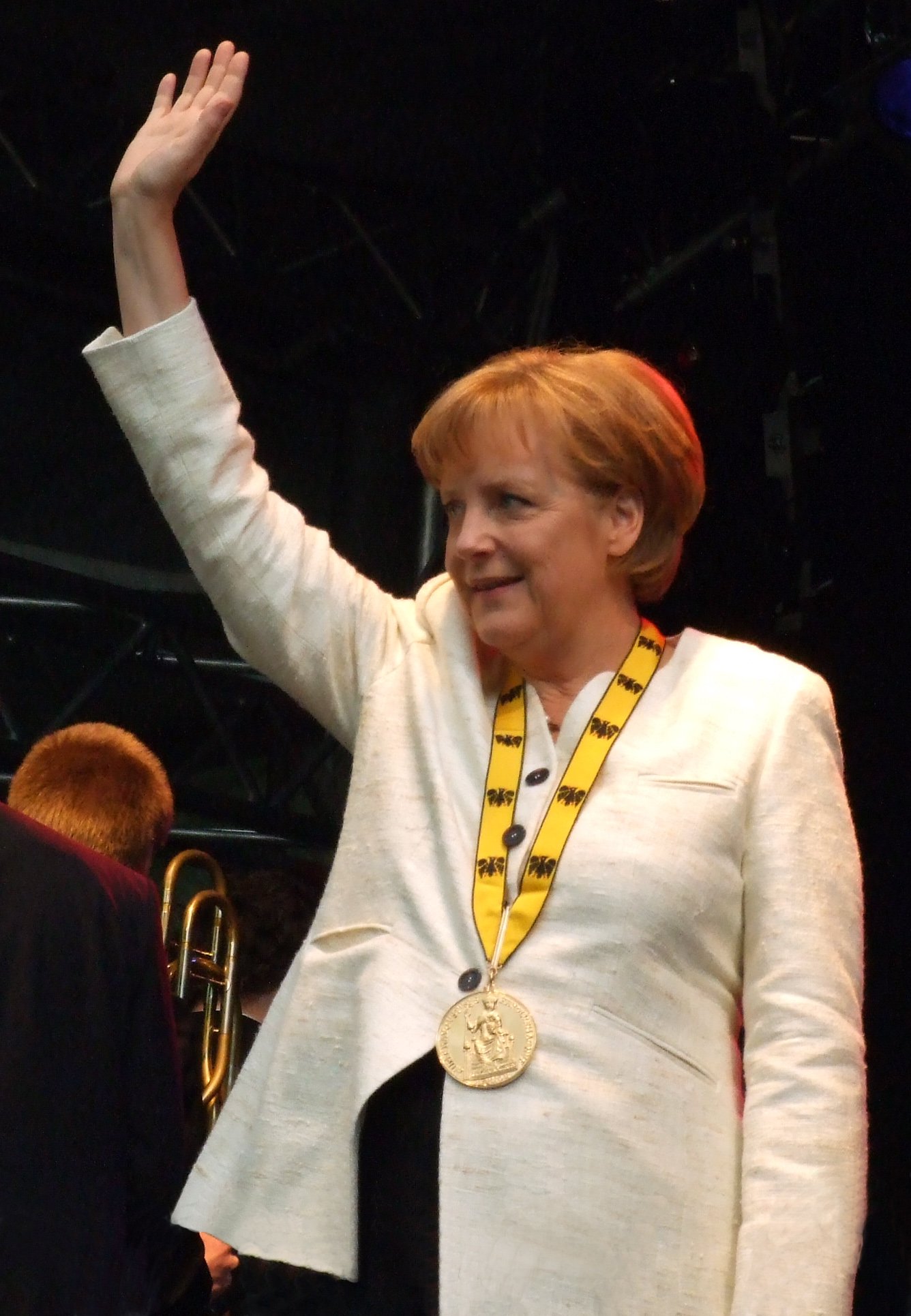 Angela Merkel at the Charlemagne Prize celebration 2008